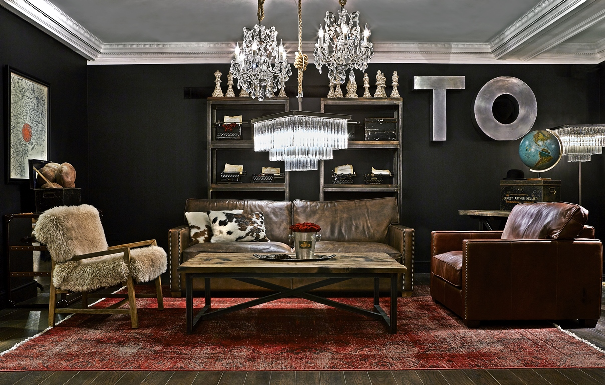 Timothy Oulton, furniture & home decor